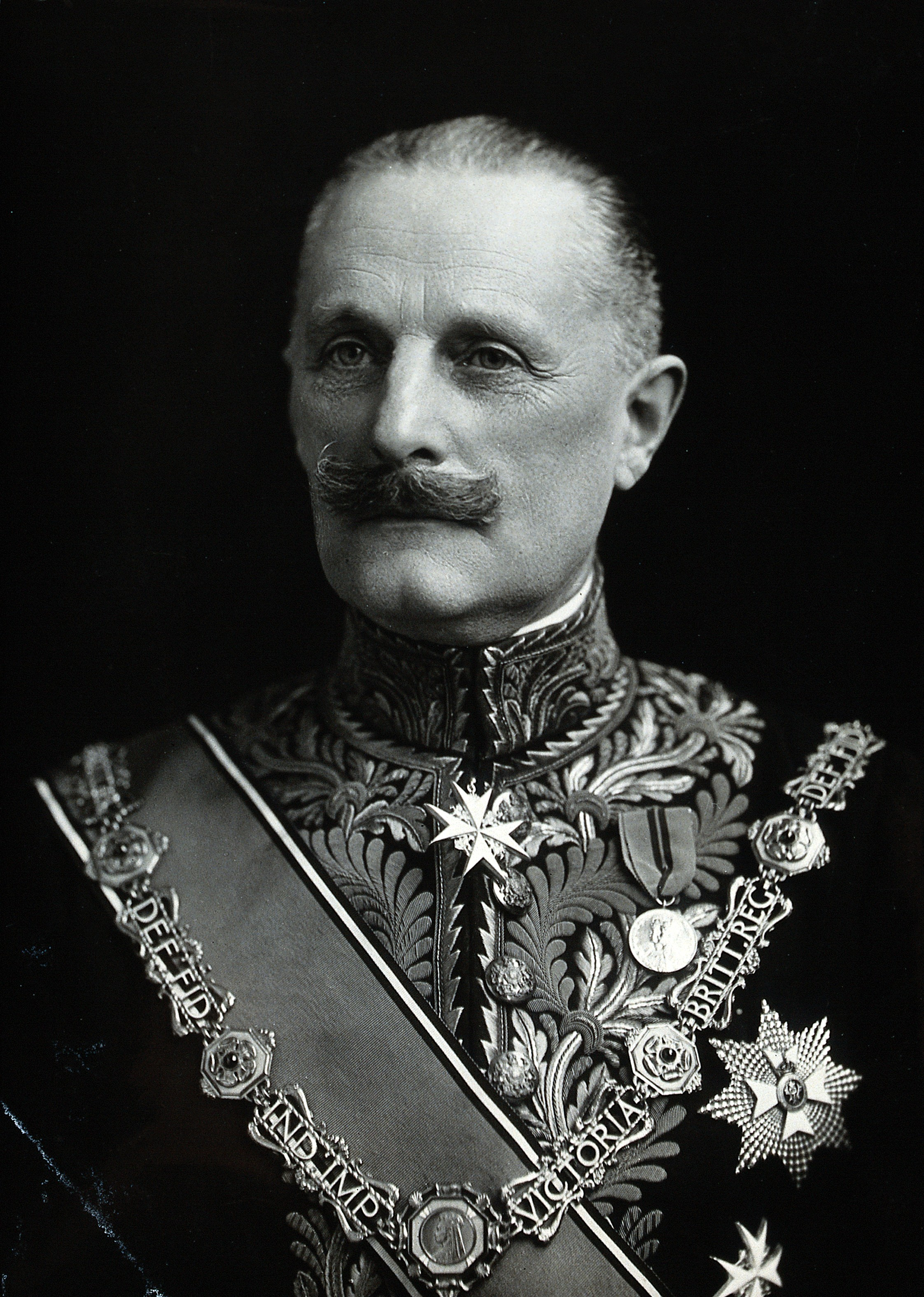 Charles Havelock. Photograph. Iconographic Collections Keywords: portrait photographs